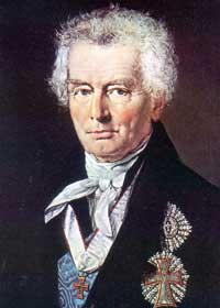 Christian Ditlev Reventlow, Count Reventlow (1748-1827), Danish statesman and reformer